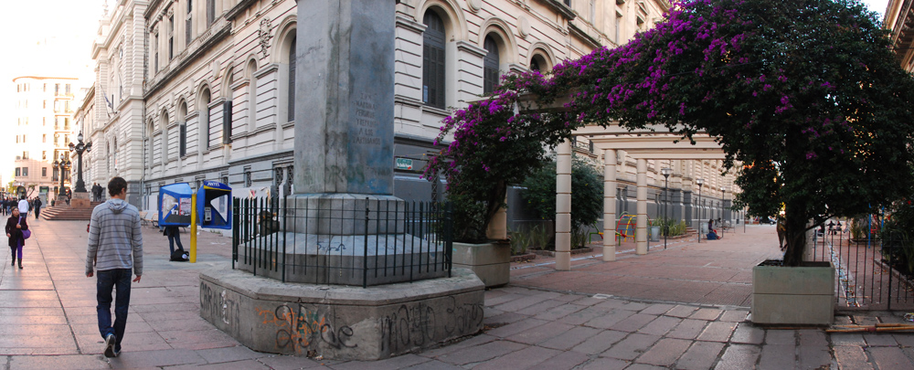 Frugoni passage, alongside the building of the University of the Republic.